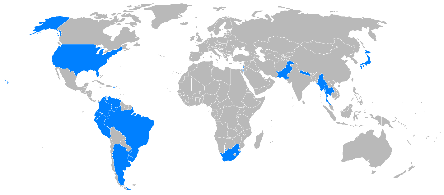 World map of Beechcraft Queen Air operators